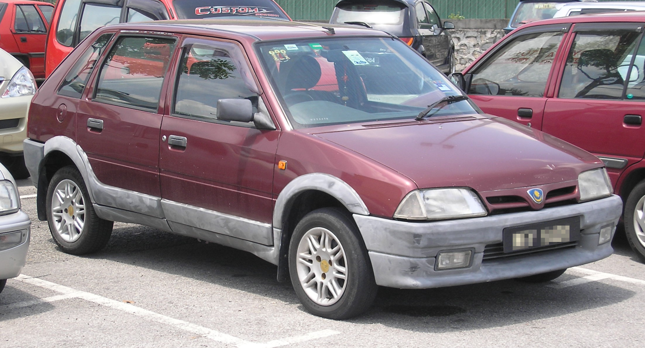 Front quarter view of a first generation Proton Tiara, in Sungai Besi, Kuala Lumpur, Malaysia.